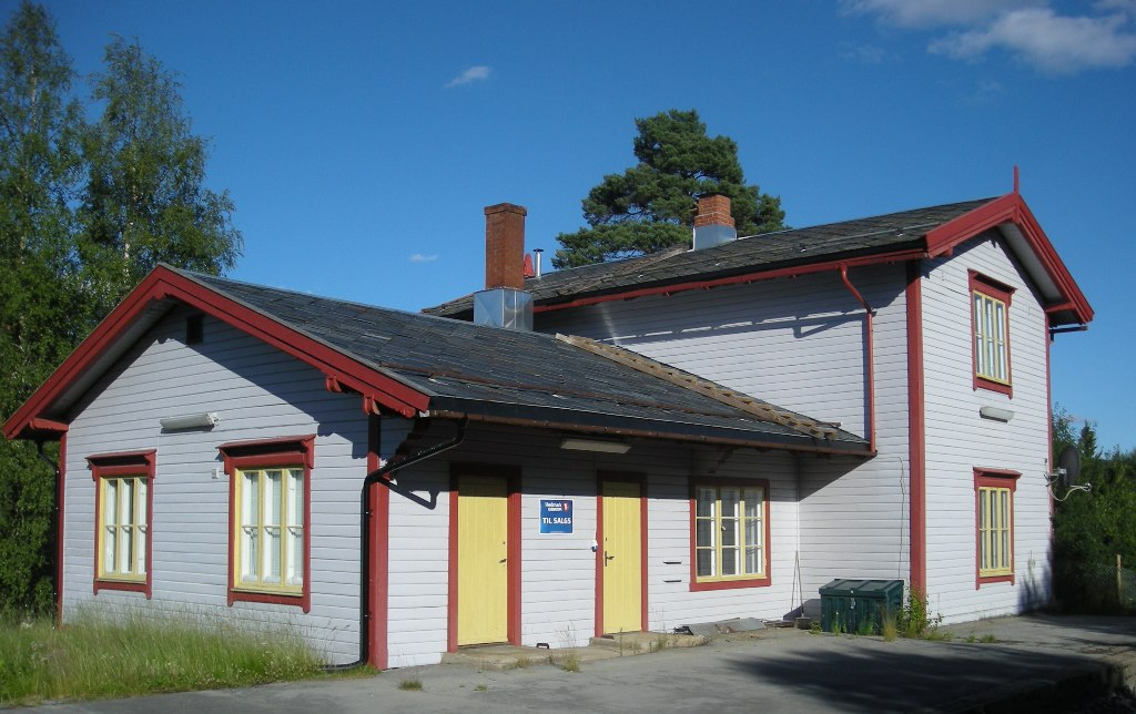 Steinvik station on the Røros line